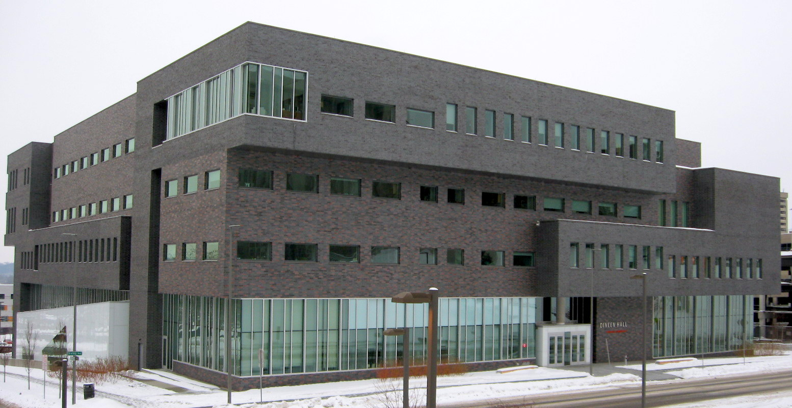 Dineen Hall, Syracuse University College of Law, February 2015 (view from southeast corner)